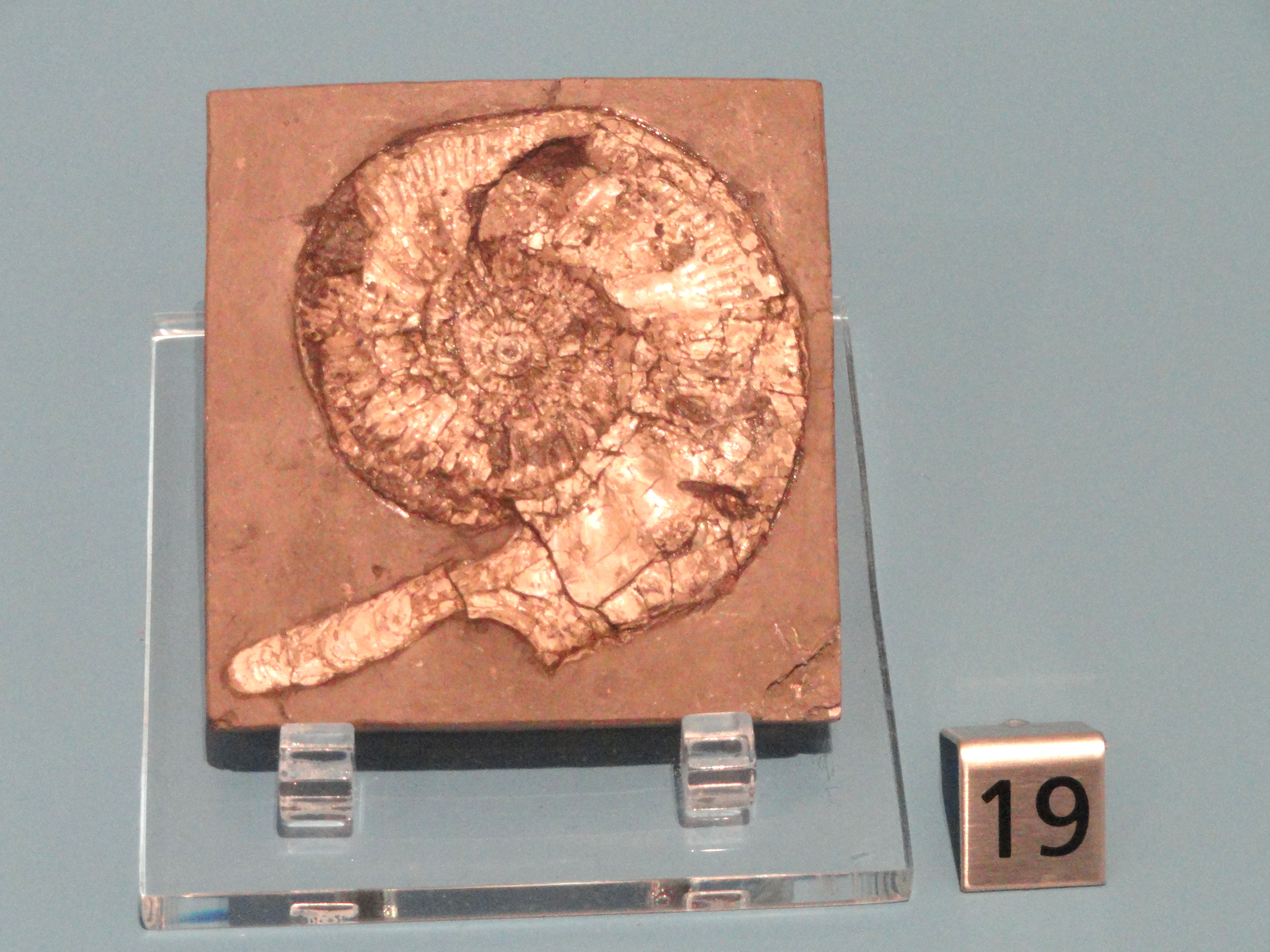 Exhibit in the Royal Ontario Museum, Toronto, Ontario, Canada. This exhibit is old enough so that it is in the public domain, and photography was permitted in the museum. I took this photograph and release it into the public domain.